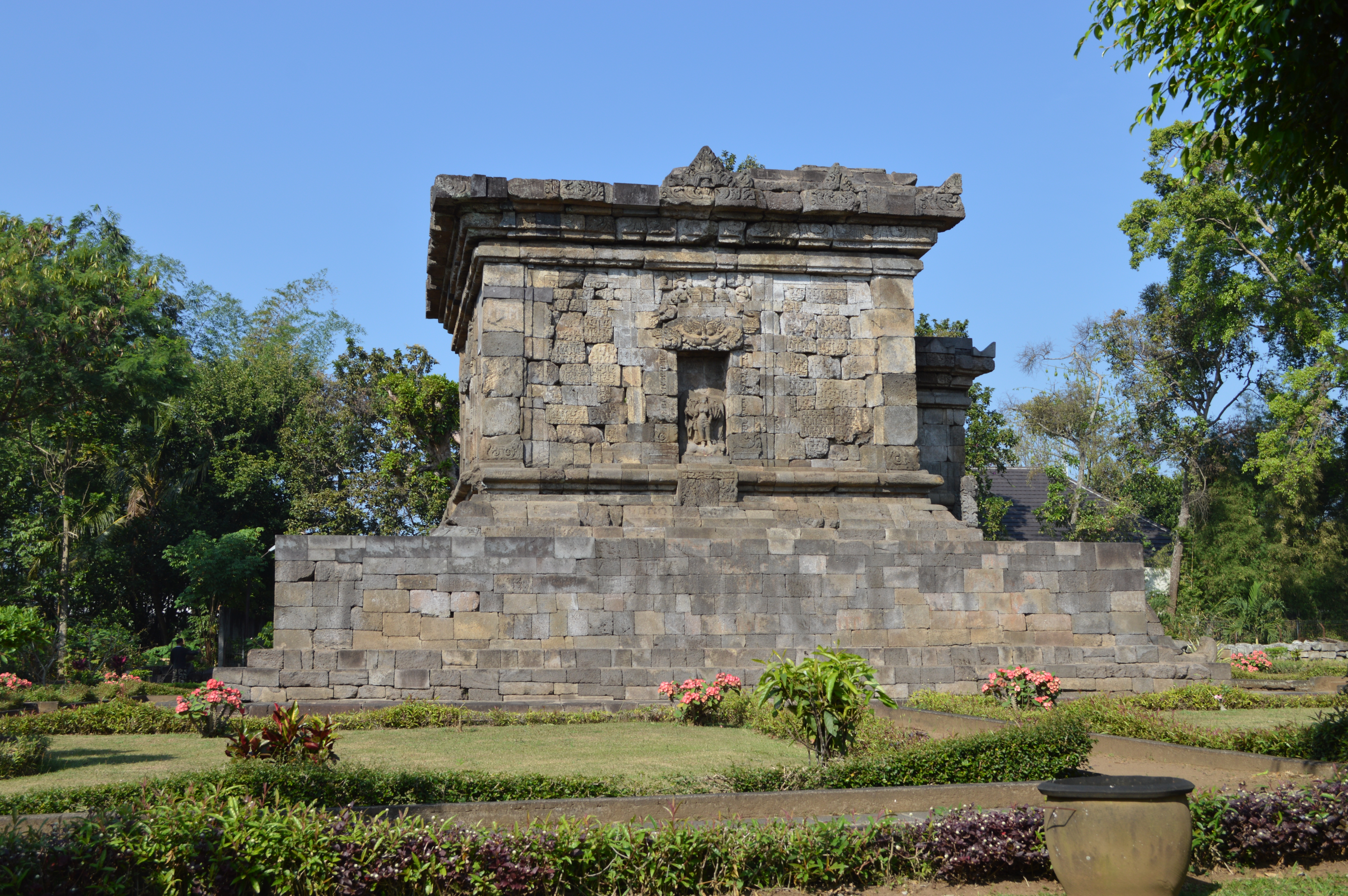 Badut Temple (Candi Badut) Malang area, East Java, Indonésia.